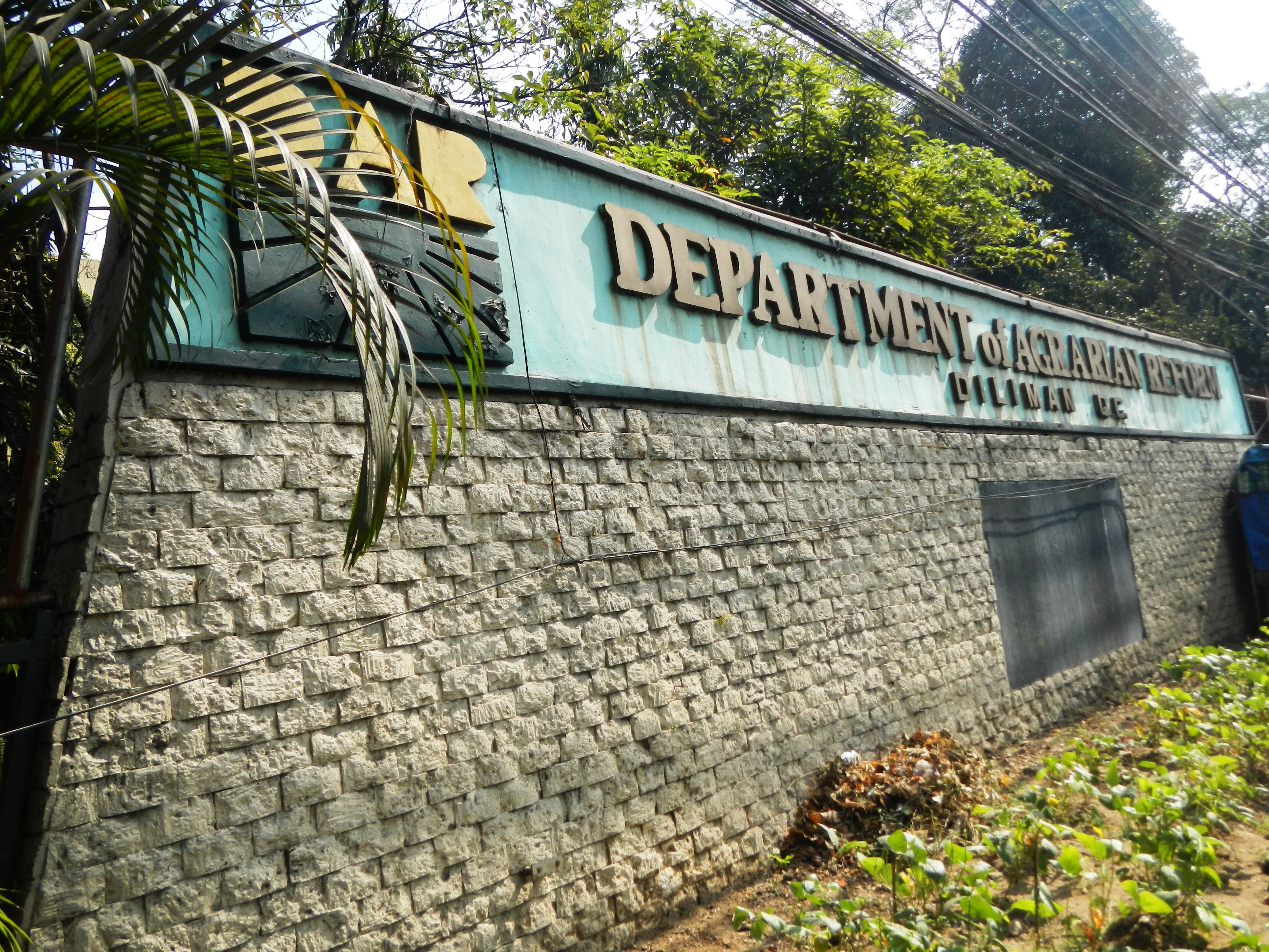 [Department of Agrarian Reform [Elliptical Road Vasra, Diliman, Quezon City 1100 is under the [Department of Agriculture (Philippines) [Elliptical Road Vasra, Diliman, Quezon City 1100.